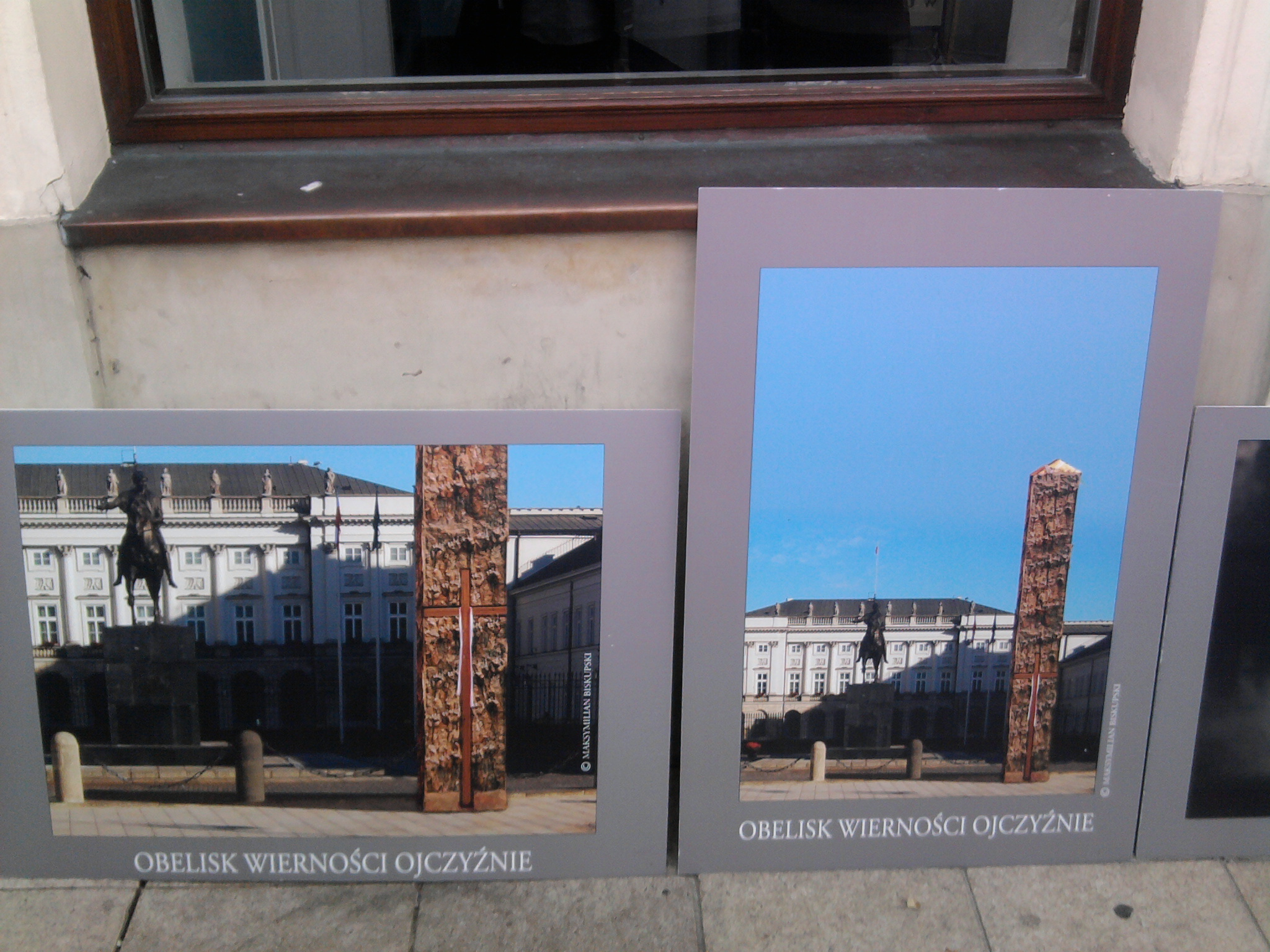 Cross in front of the Presidential Palace in Warsaw after Smolensk plane crash - memorial's project